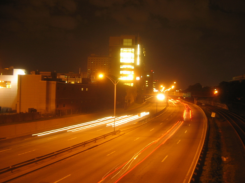 View of the Turnpike from the Carlton Street overpass by Boston University, facing east towards downtown Boston